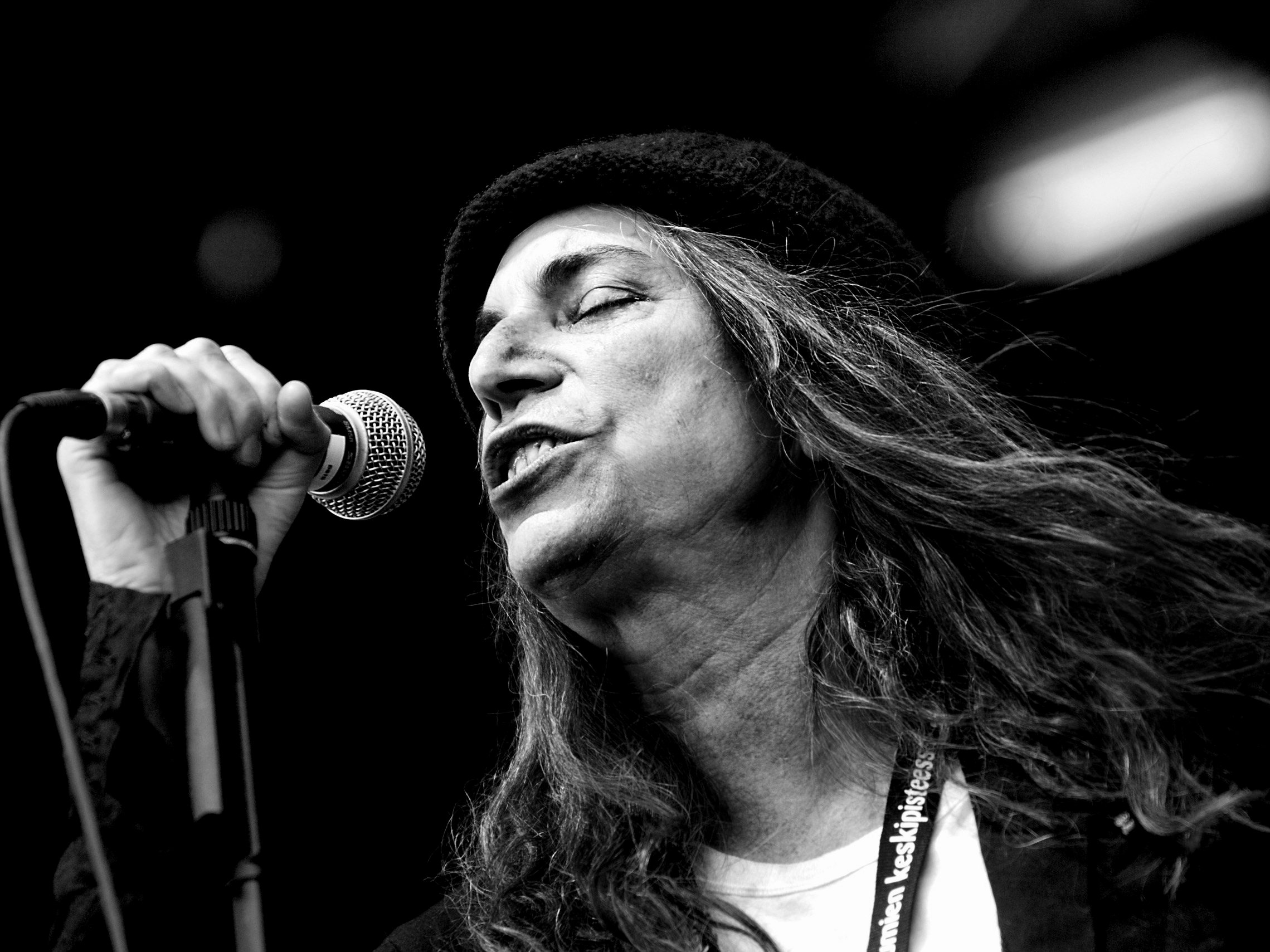 Patti Smith performing at Provinssirock festival, Seinäjoki, Finland.